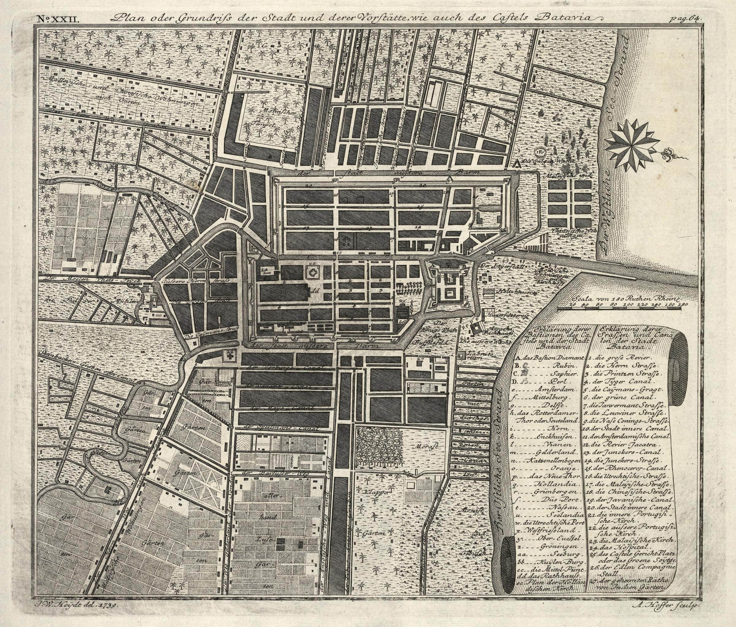 Map of Batavia. Plan oder Grundriß der Stadt und derer Vorstätte, wie auch des Castels Batavia. Top left: No. XXII.. Top right: pag. 64.. Key: Legenda: Erklärung derer Bastionen des Castels und der Stadt Batavia. / A. das Bastion Diamant. / B. _ _ _ _ _ _ Rubin [Met potlood: C.] / C. _ _ _ _ _ _ Saphier [Met potlood: D.]. / D. _ _ _ _ _ _ Perl [Met potlood: B.]. / e. _ _ _ _ Amsterdam. / f. _ _ _ Mittelburg. / g. _ _ _ _Delfft. / h. das Rotterdamer Thor oder Souteland. / i. _ _ _ _ Horn. / k. _ _ _ _ Enckhuisen. / l. _ _ _ _ Vianen. / m. _ _ _ _ Gelderland. / n. _ _ _ _Katzenellebogen. / o. _ _ _ _ Oranje. / p. _ _ _ _ das Neue-Thor. / q. _ _ _ _ Hollandia. / r. _ _ _ _ Grünbergen. / s. _ _ _ _Düs-Port. / t. _ _ _ _ Nassau. / u. _ _ _ _ Seelandia. / w. _ _ _ _ die Utrechtische Port. / x. _ Westfriesland. / y. _ _ _ _ Ober-Euchtel. / z. _ _ _ _ Gröningen. / aa. _ _ _ _ Seeburg. / bb. _ _ _ _ Kuijlen-Burg. / cc. _ die Mittel-Pünt. / dd. das Rathhauss. / ee. Plan der Holländischen Kirch. / Erklärung deren srassen und Canalen der Stadt Batavia. / 1. die grose Revier. / e. die Herrn Strasse. / 3. die Printzen Strasse. / 4. der Tijger Canal. / 5. die Caijmans-Gragt. / 6. der grüne Canal. / 7. die Janvermant Strasse. / 8. die Leuwiner Strasse. / 9. die Nase Conings-Strasse. / 10. der Stadt innere Canal. / 11. der Amsterdamische Canal. / 12. die Revier-Jacatra. / 13. der Junckers-Canal. / 14. der Junckers-Strasse. / 15. der Rhenoceror-Canal. / 16. die Utrechtische-Strasse. / 17. die Maleijische-Strasse. / 18. die Chinesische-Strasse. / 19. der Javanische-Canal. / 20. der Stadt innere Canal. / 21. die innere Portugisische-Kirch. / 22. die aüssere Portugisische-Kirch. / 23. die Malaijische-Kirch. / 24. das Hospital. / 25. des Castels Gericht-Platz. oder das Groene Soijtge./ der Edlen Compagnie-Stall. / 27. der geheimten Räthe von Indien Gärten.